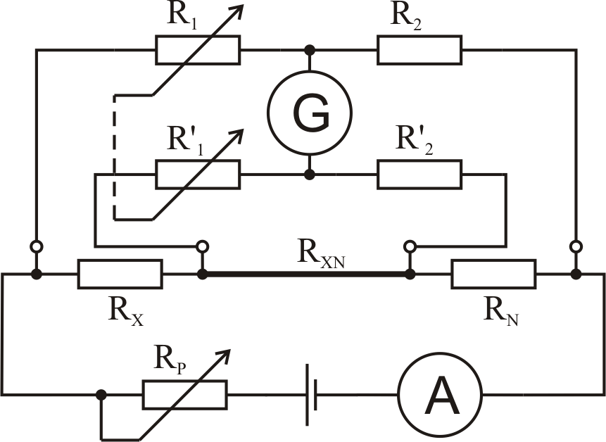 Circuit of Kelvin bridge